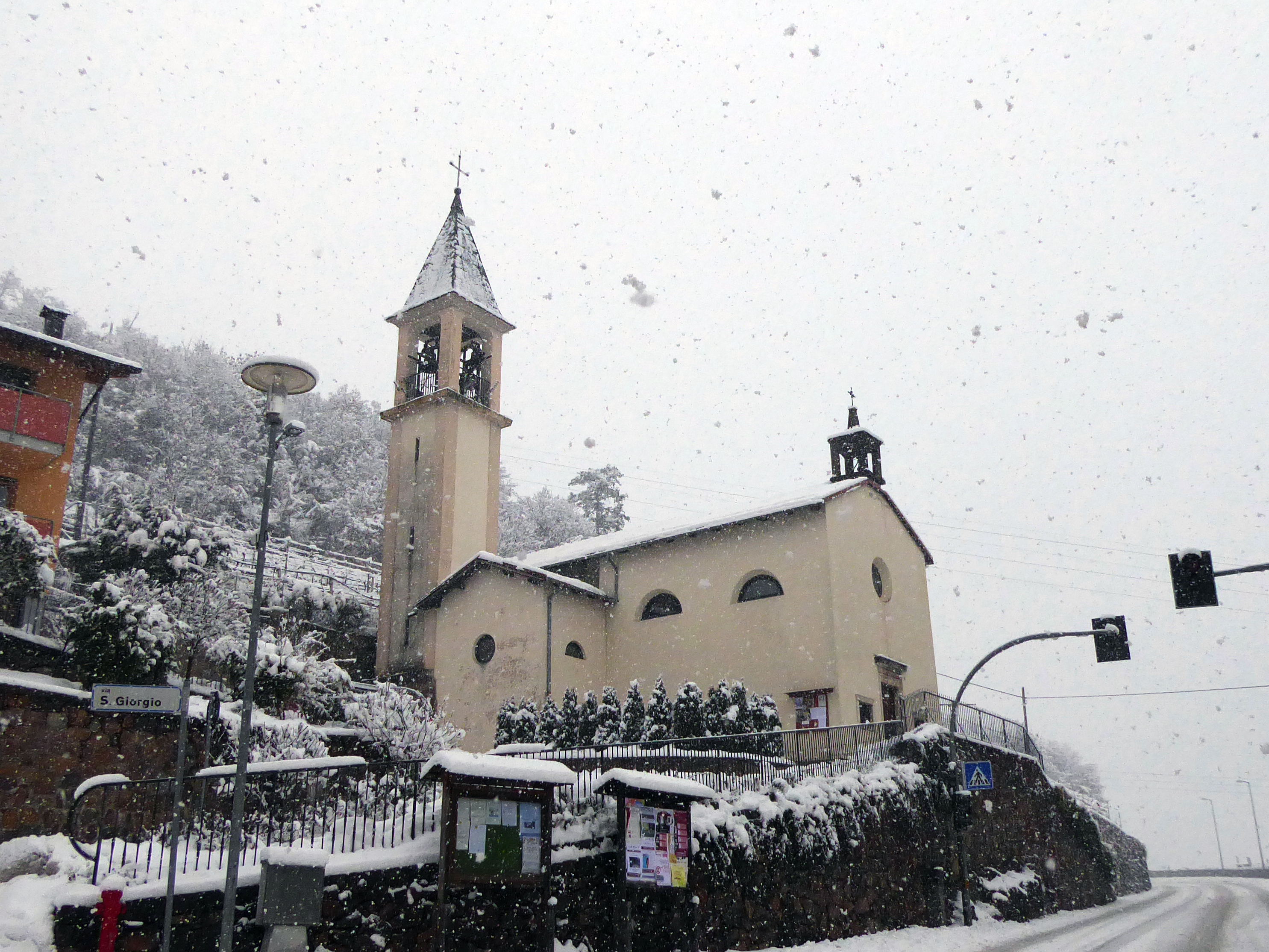 Our Lady of Sorrows church of Mosana (Giovo) during a snowfall